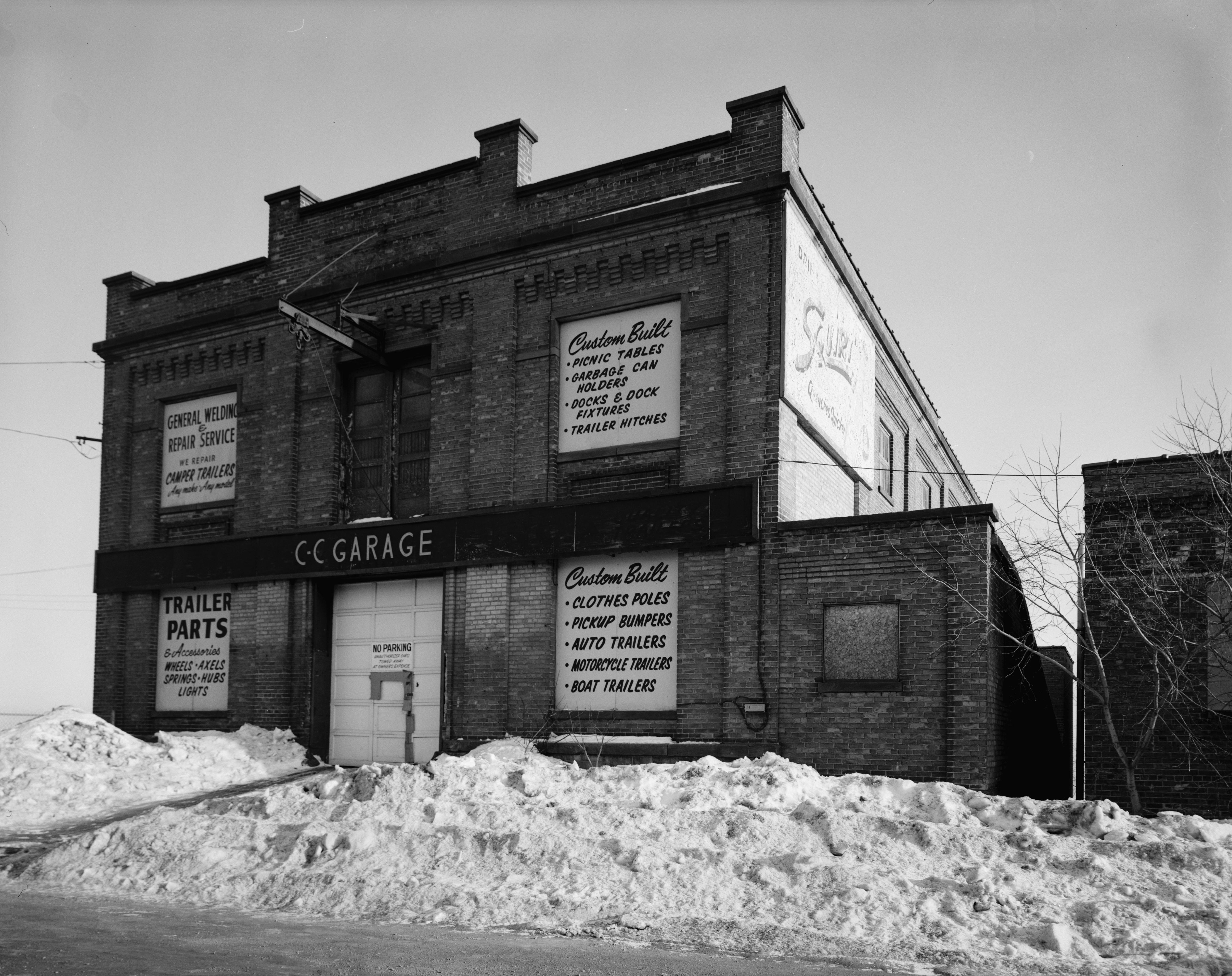 Fitger Brewery Complex, Stable & Garage, 600 East Superior Street, Duluth, St. Louis County, MN